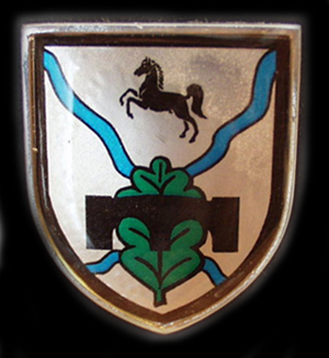 Staff & HQ Company Engineers Brigade 20